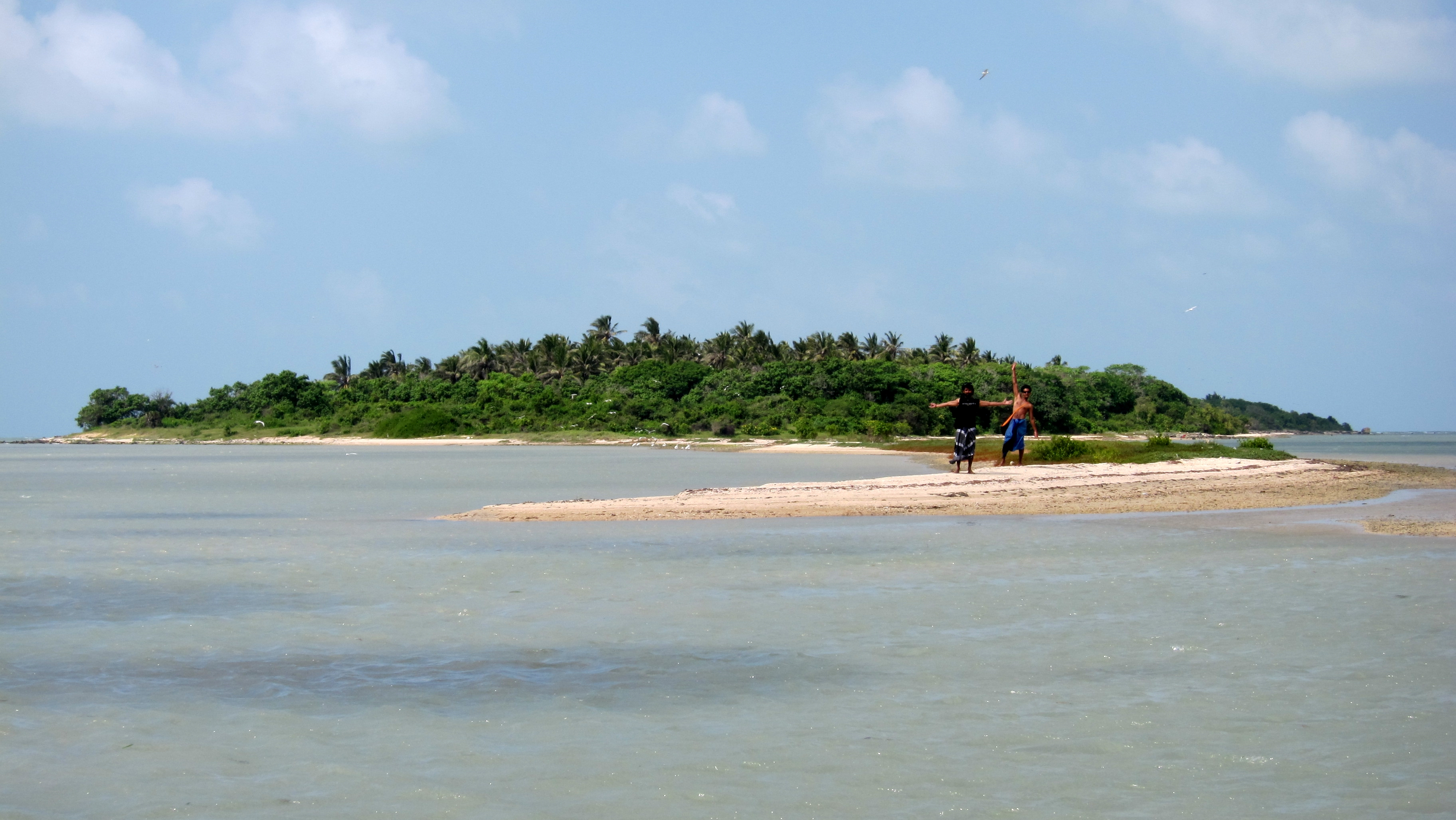 few chaps on board